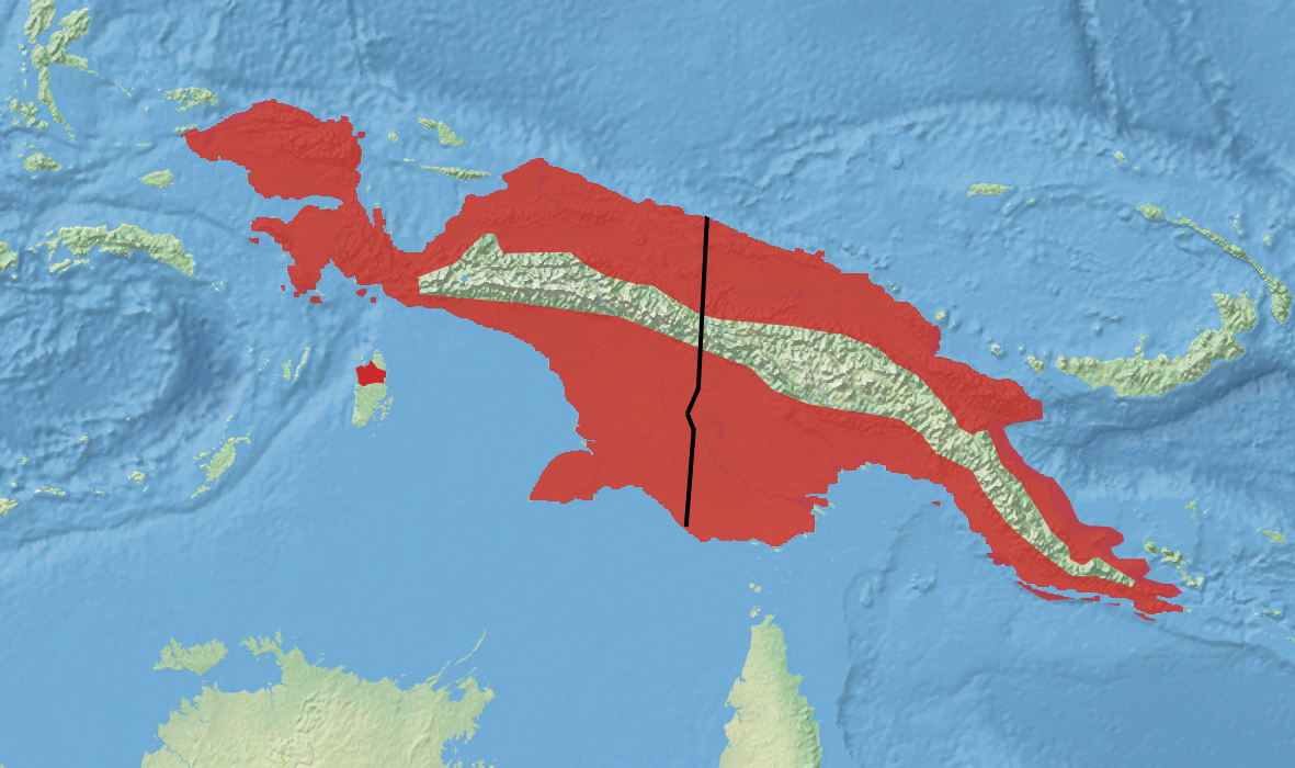 The Distribution of the Large-eared Flying-fox